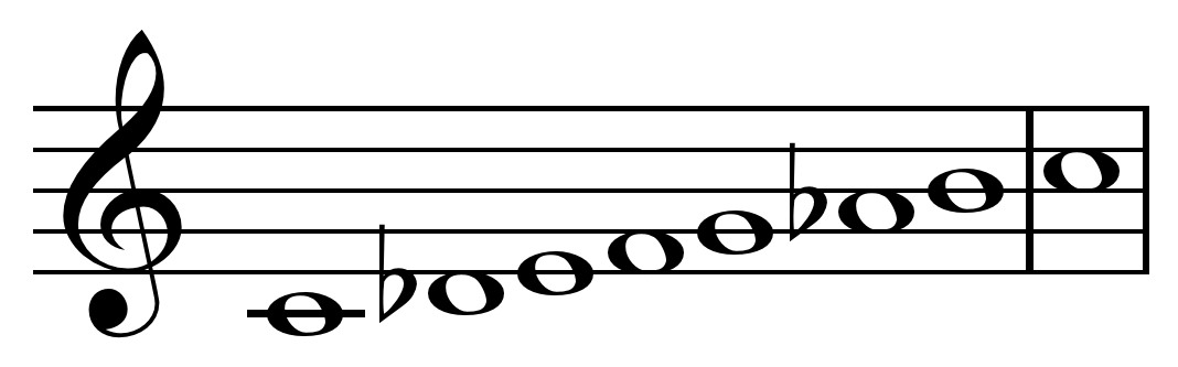 Flamenco mode on C.